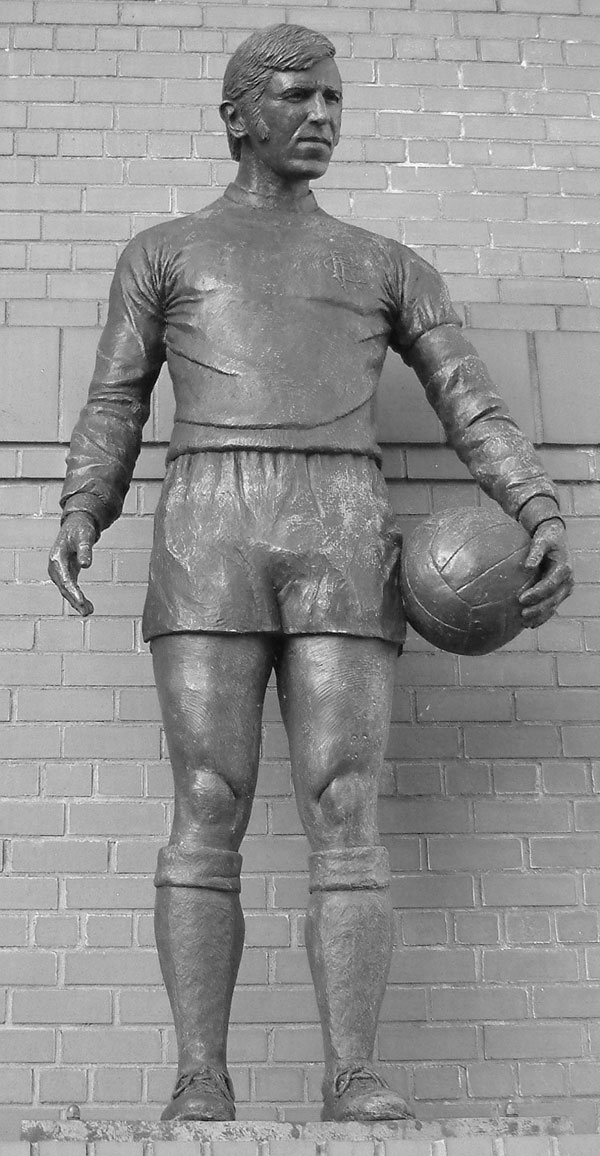 Statue of John Greig unveiled on 2nd of January 2001 in memory of those who died in the Ibrox stadium disaster. Image taken by Anthony Cox.